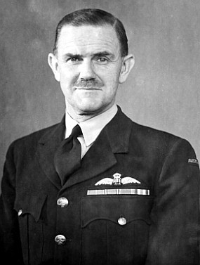 London, England. 1943-09-08. Portrait of Air Commodore F. M. Bladen (sic), at RAAF Overseas HQ, who arrived in the UK for exchange duty with the RAF. He was formerly at Darwin, NT, Air Officer Commanding the North Western Area.